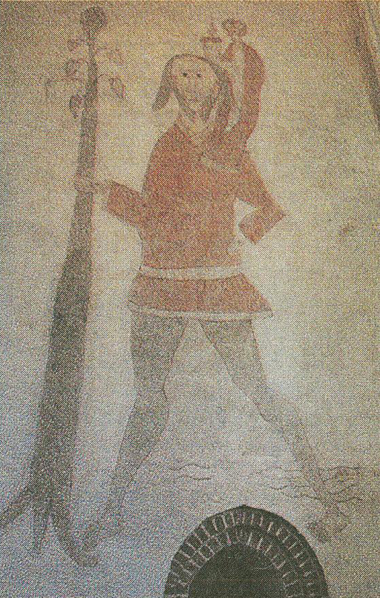 Saint Christopher. Wall painting in the church of Pyhtää, Finland.